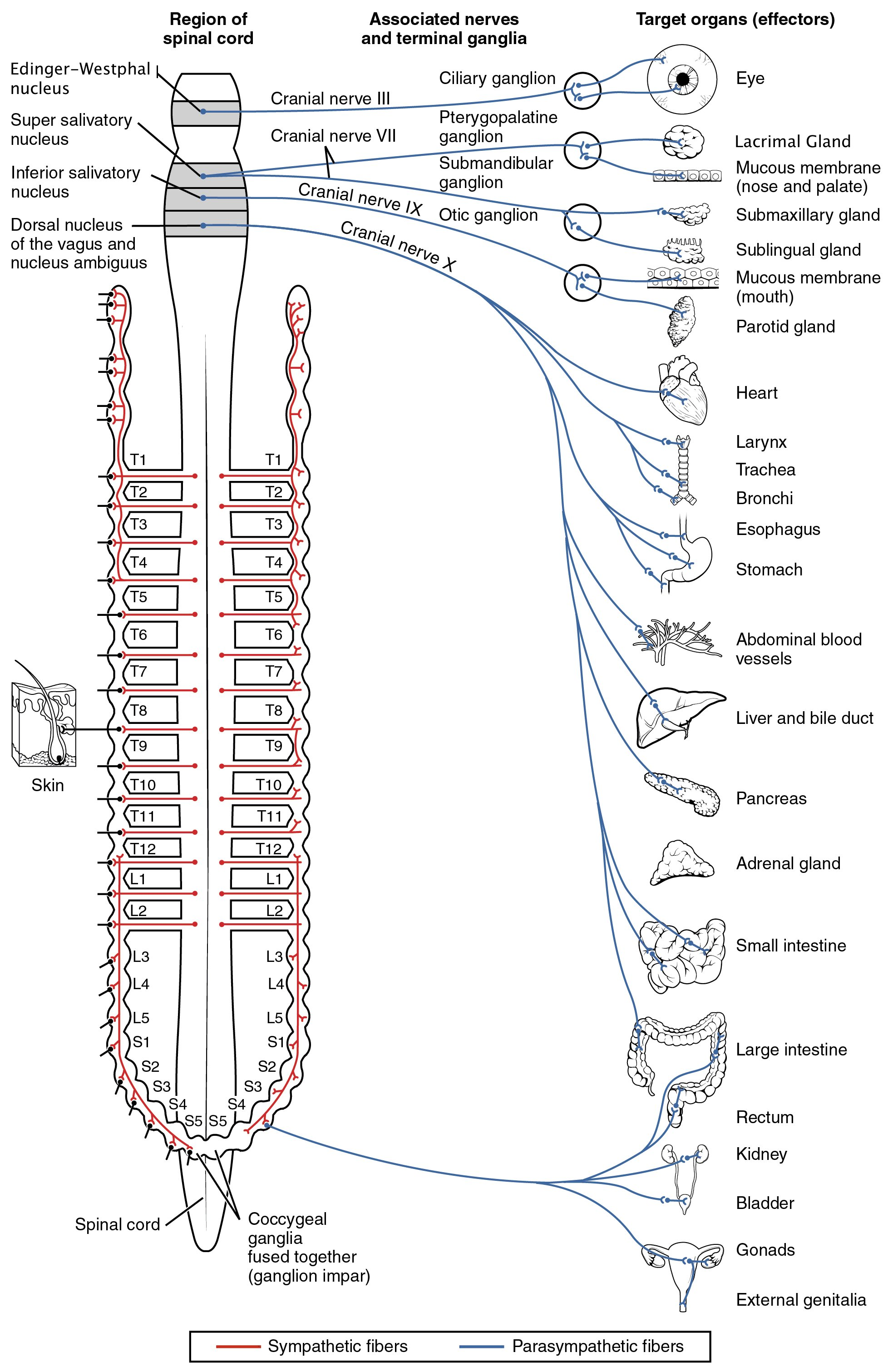 Illustration from Anatomy & Physiology, Connexions Web site. Jun 19, 2013.